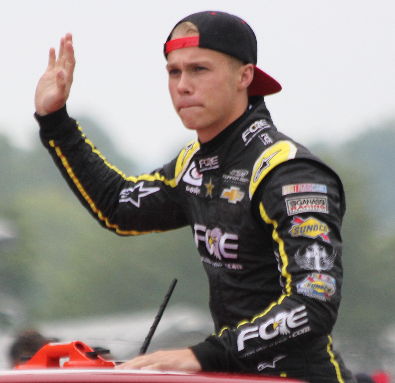 NASCAR driver Dylan Kwasniewski waves to the crowd during drivers introduction at the Xfinity Series race at Road America.